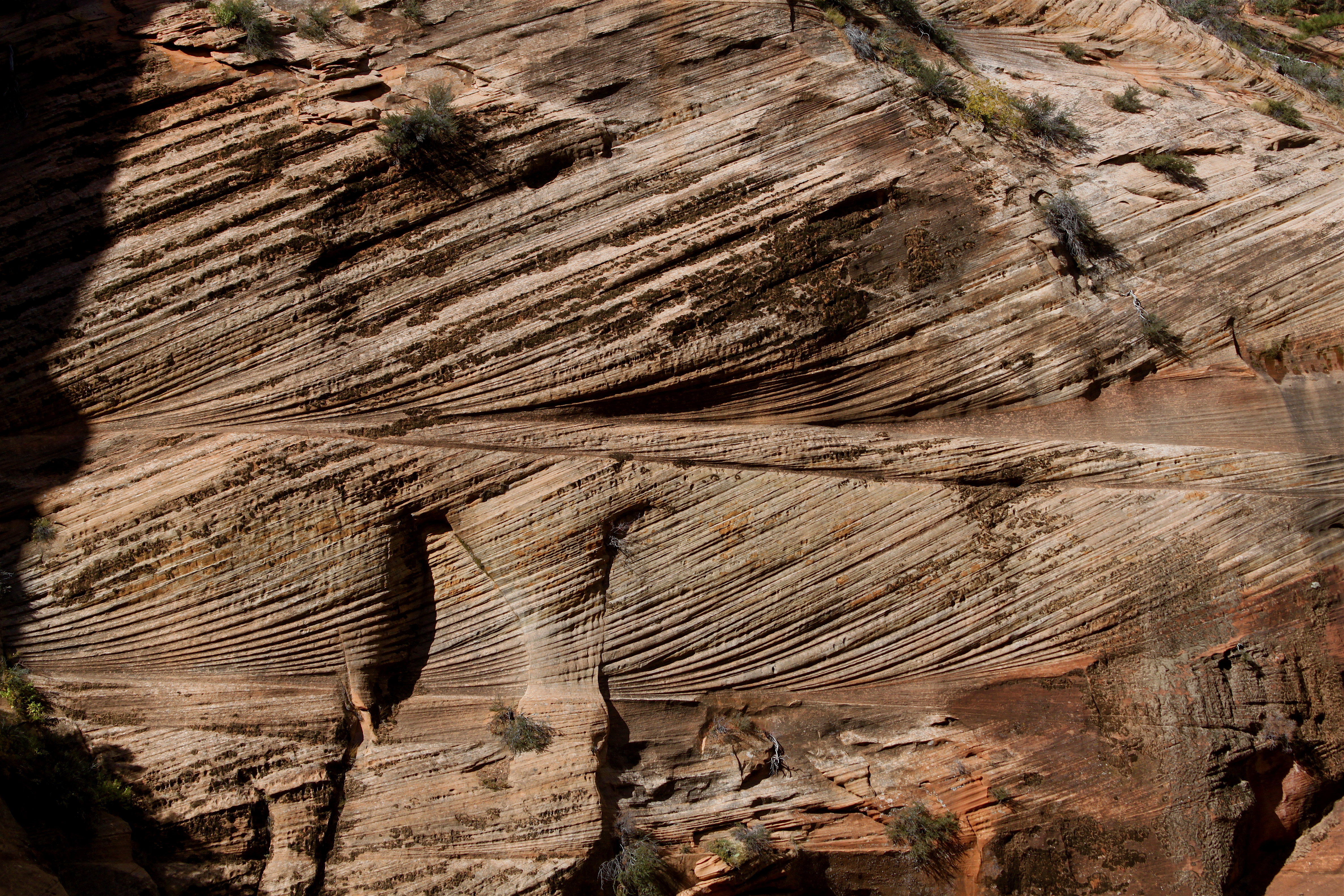 Layers of sandstone showing cross-bedding, at Angel's Landing Trail in Zion National Park in Utah, USA.